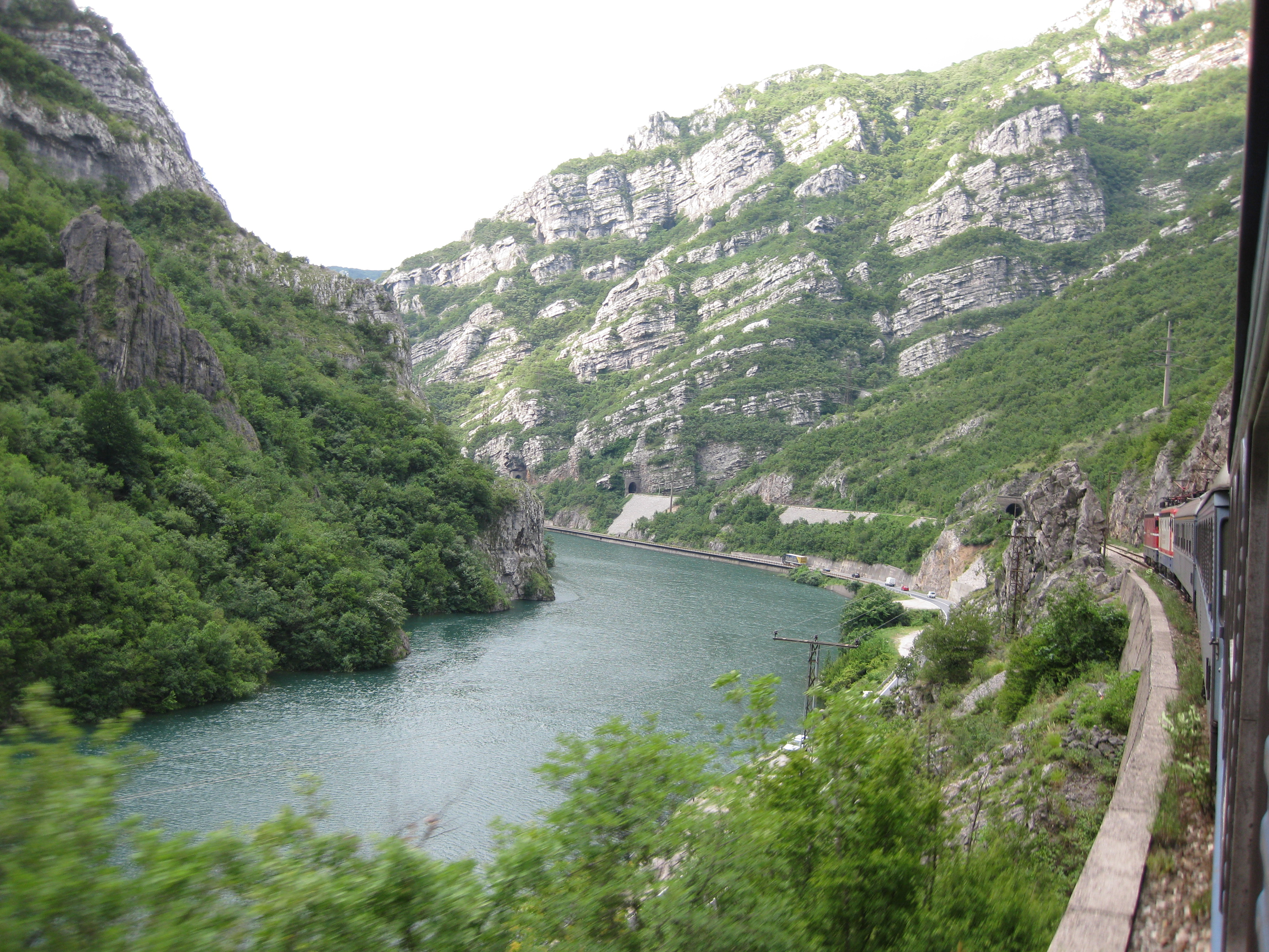 Picture taken from train between Jablanica and Mostar (Neretva-valley)